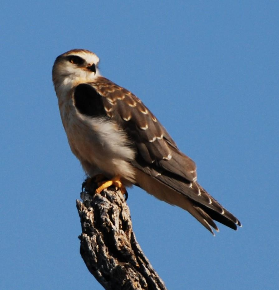 Juvenile Black-winged Kite (Elanus caeruleus) in Etosha National Park, Namibia